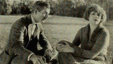 Still from the American drama film Domestic Relations (1922) with Katherine MacDonald and William P. Carleton, on page 65 of the August 1922 Photoplay.